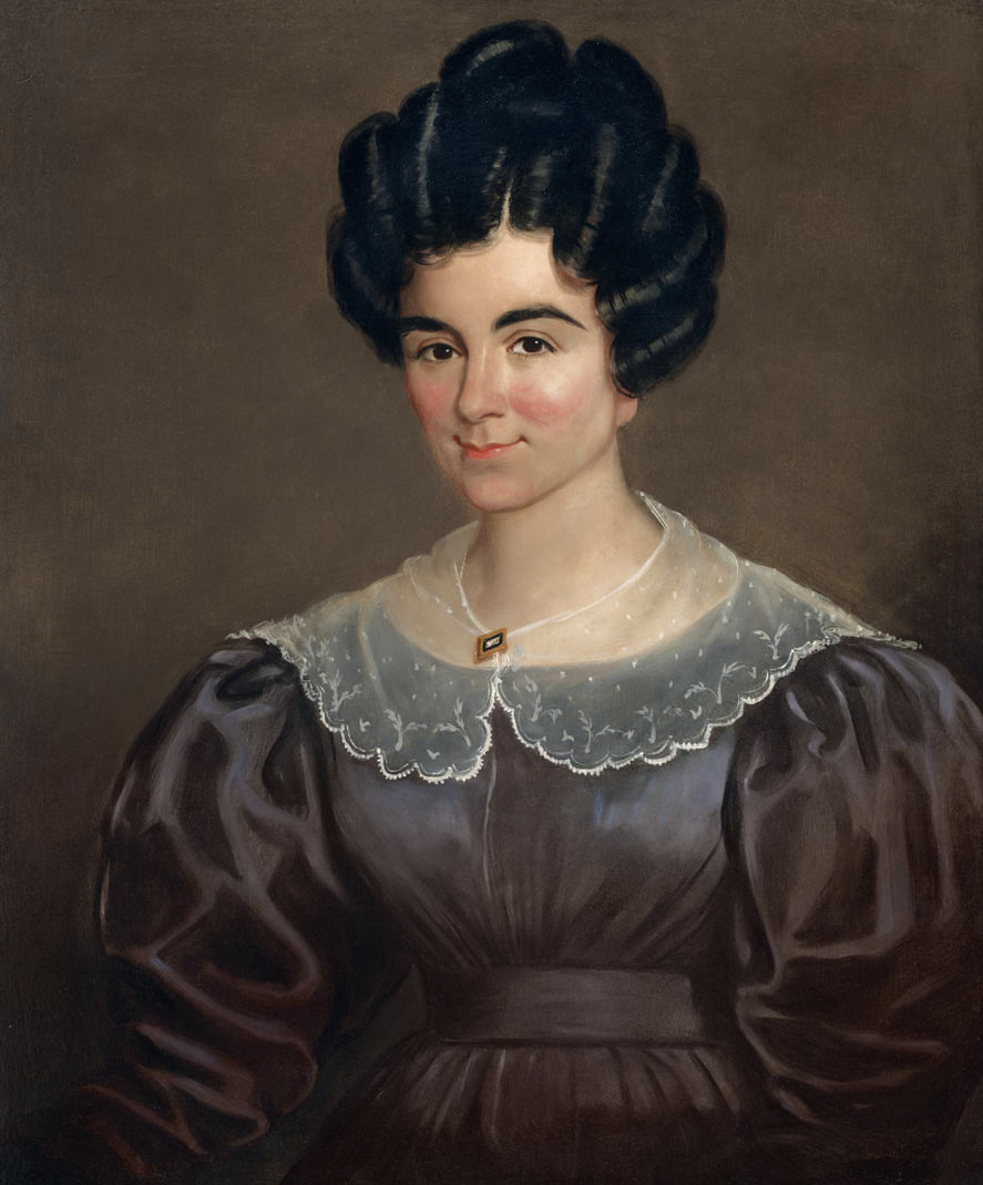 Madame Colin Robertson, née Theresa Chalifoux oil on canvas 76,2 x 63,5 cm 1833